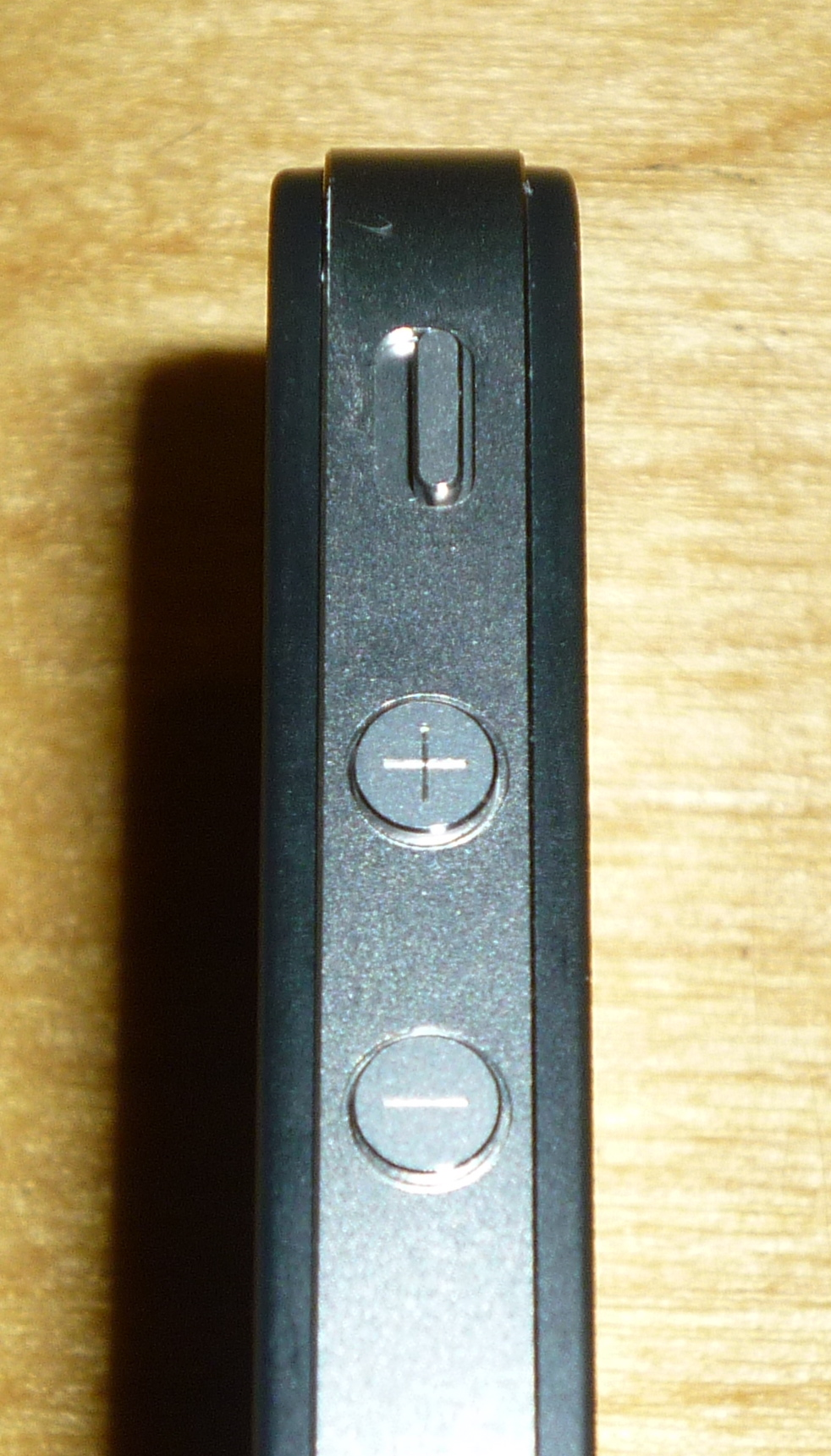 Close-up view of the volume controls of an iPhone 4.